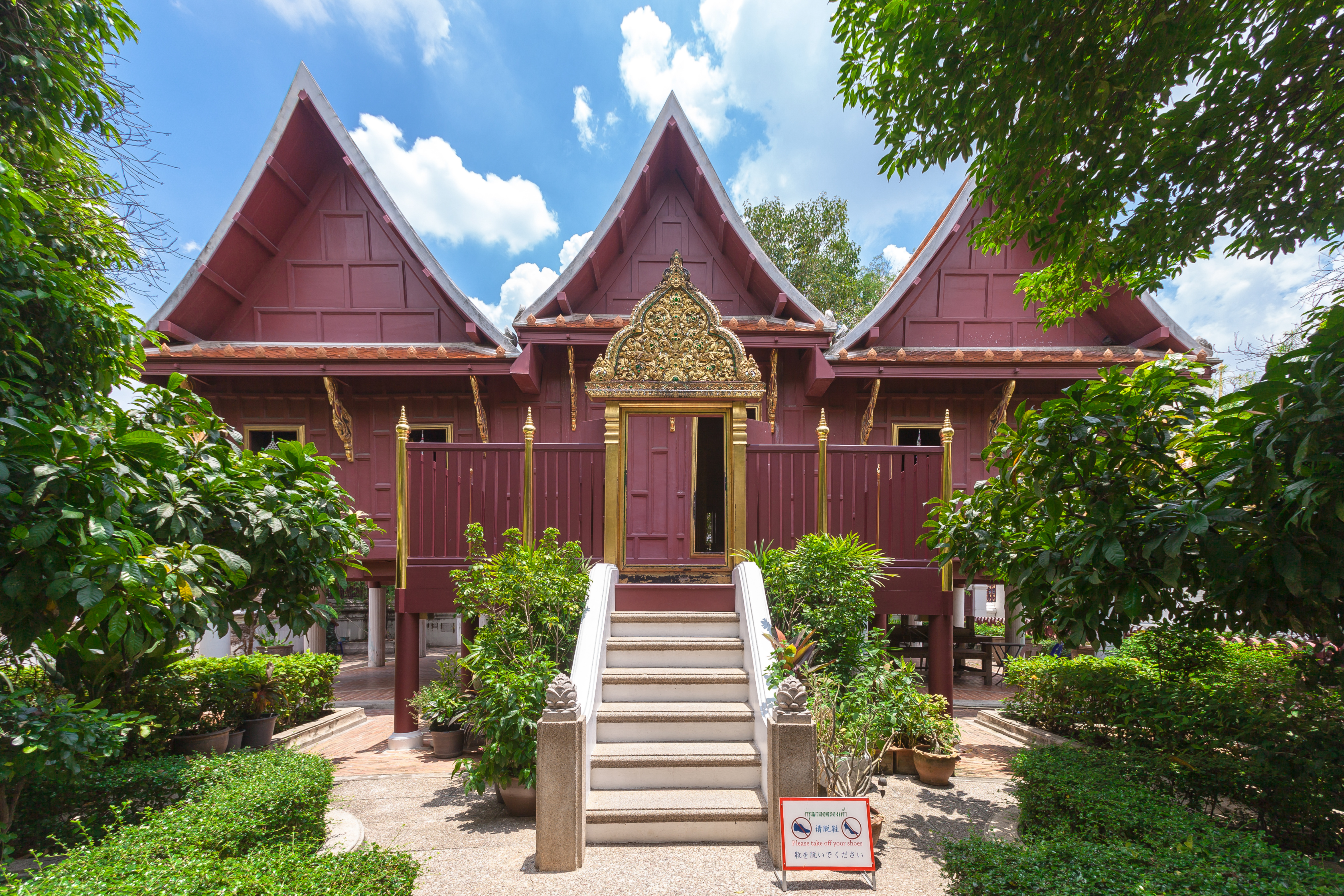 Ho Trai, Wat Rakhang.